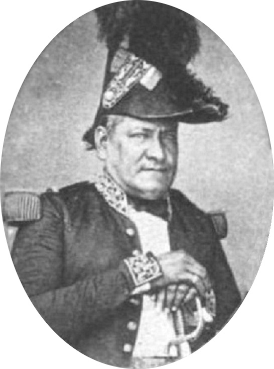 Prince Tenaniʻa Ariʻi-Faʻaite-a-Hiro (1820-1873). The prince is probably wearing the uniform of a post Captain in the Royal Navy presented by Queen Victoria in 1843.